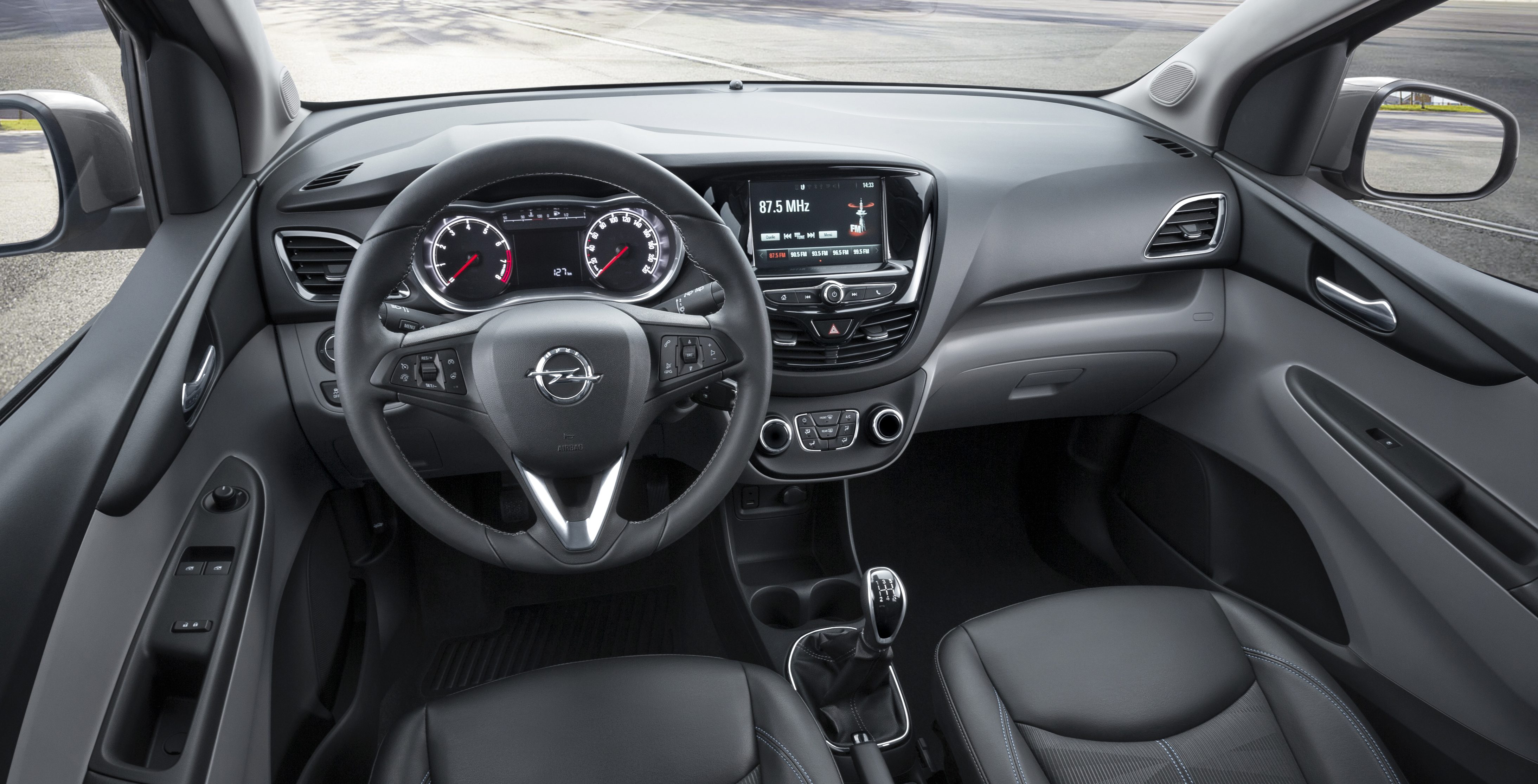 Opel KARL